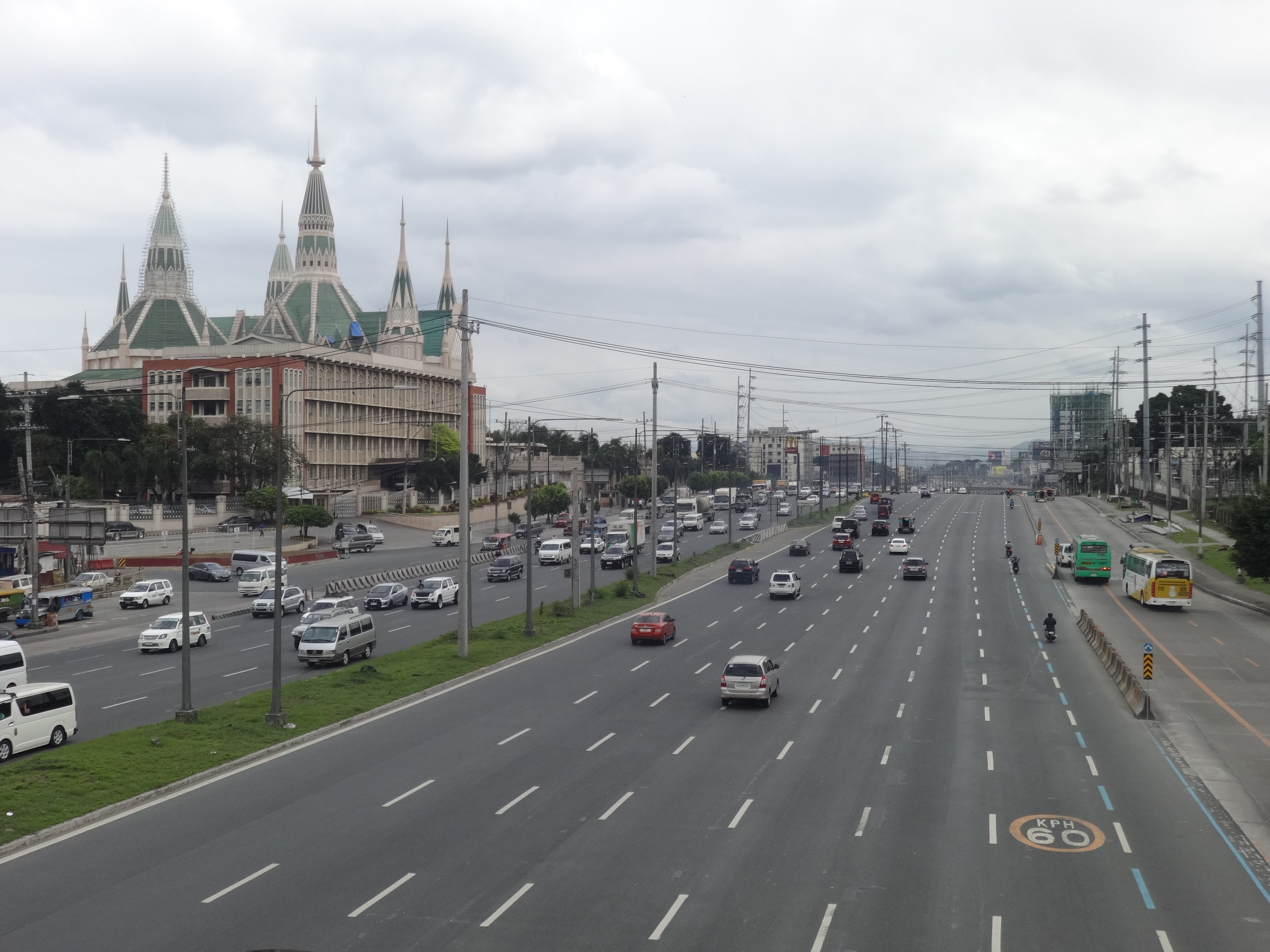 Commonwealth Avenue (N170) in Quezon City